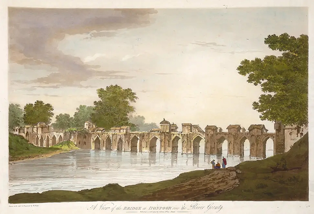 This is plate 34 from William Hodges' book 'Select Views in India'. Located at a crossing point on the river Gomti, Jaunpur was founded by Feroz Shah Tugluq in the 14th century. The massive Akbari Bridge, a remarkable structure with fifteen arches, was built between 1564 and 1568 by Munim Khan, the local governor under Mughal Emperor Akbar. Hodges wrote: "The inoundations have been frequently known to rise even over the bridge insomuch that in the year 1774 a whole brigade of the British forces was passed over it in boats."